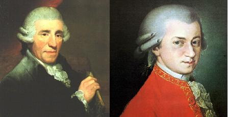 A picture combining Joseph Haydn and Wolfgang Amadeus Mozart